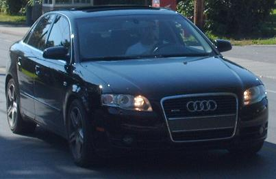 2005-2008 Audi A4 S line photographed in Montreal, Quebec, Canada.